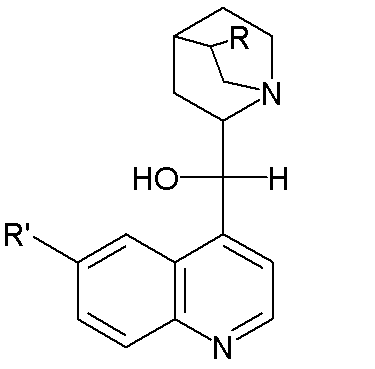 Cinchona alkaloids